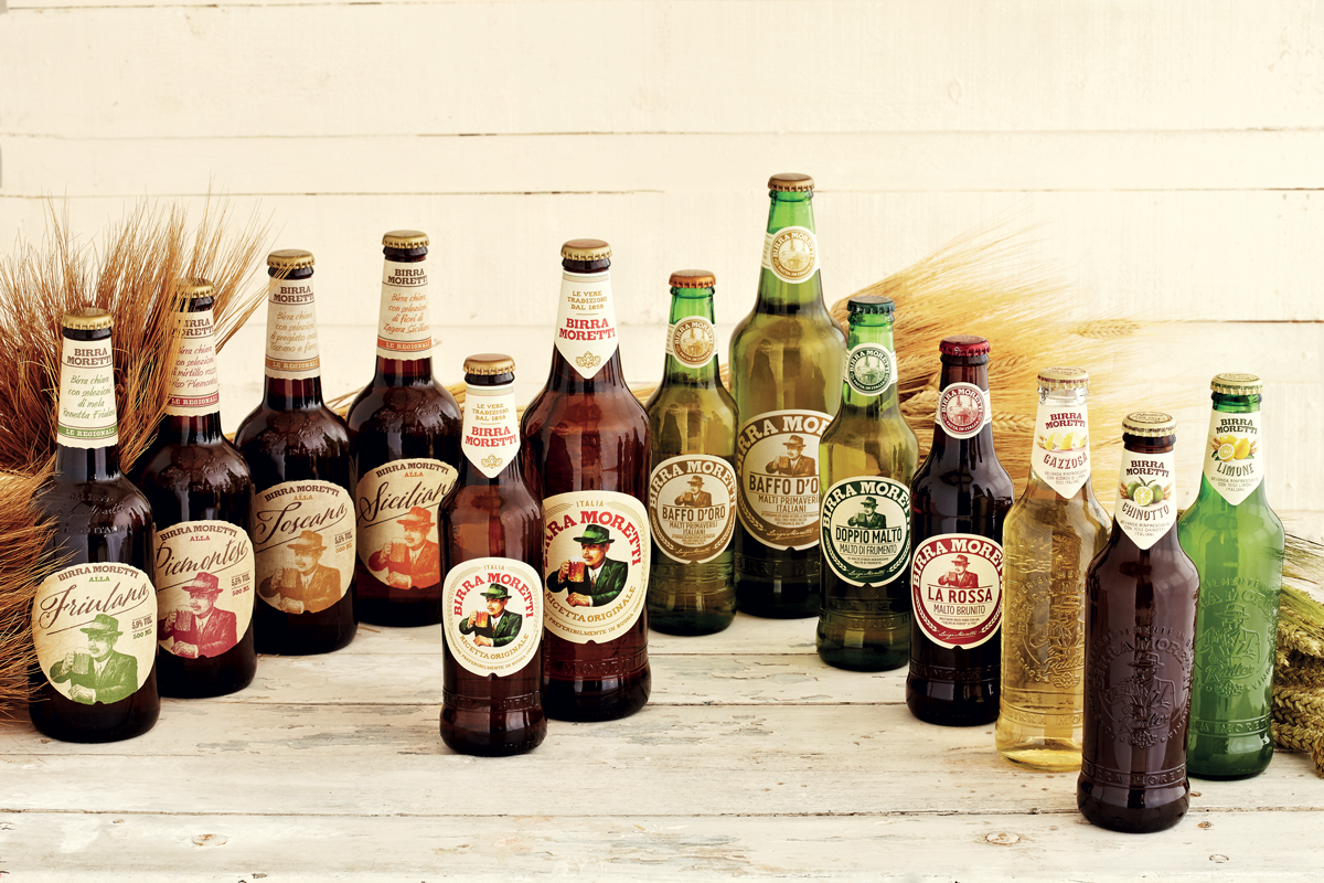 The image of all products Birra Moretti